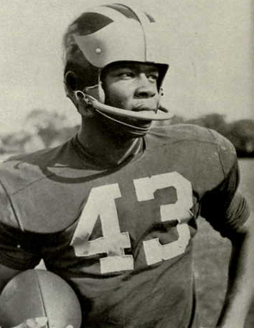 Photograph of Jim Pace This work is in the public domain because it was published in the United States between 1923 and 1963 and although there may or may not have been a copyright notice, the copyright was not renewed. Unless its author has been dead for the required period, it is copyrighted in the countries or areas that do not apply the rule of the shorter term for US works, such as Canada (50 pma), Mainland China (50 pma, not Hong Kong or Macao), Germany (70 pma), Mexico (100 pma), Switzerland (70 pma), and other countries with individual treaties. See Commons:Hirtle chart for further explanation. This work is in the public domain because it was published in the United States between 1923 and 1977 and without a copyright notice. Unless its author has been dead for several years, it is copyrighted in jurisdictions that do not apply the rule of the shorter term for US works, such as Canada (50 p.m.a.), Mainland China (50 p.m.a., not Hong Kong or Macao), Germany (70 p.m.a.), Mexico (100 p.m.a.), Switzerland (70 p.m.a.), and other countries with individual treaties. See this page for further explanation.